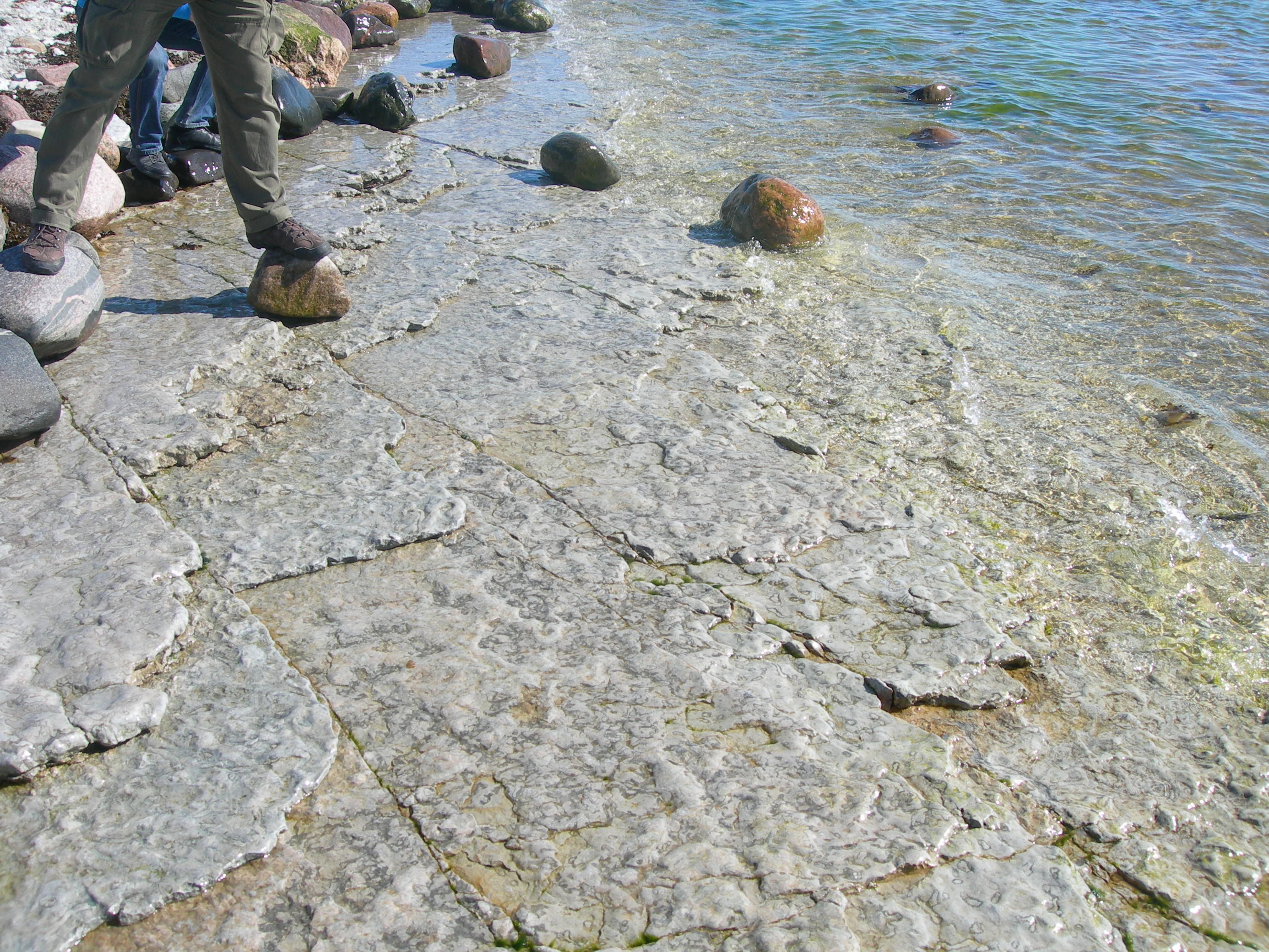 Jointed Middle Ordovician limestone, NW shore of Osmussaar island, Estonia